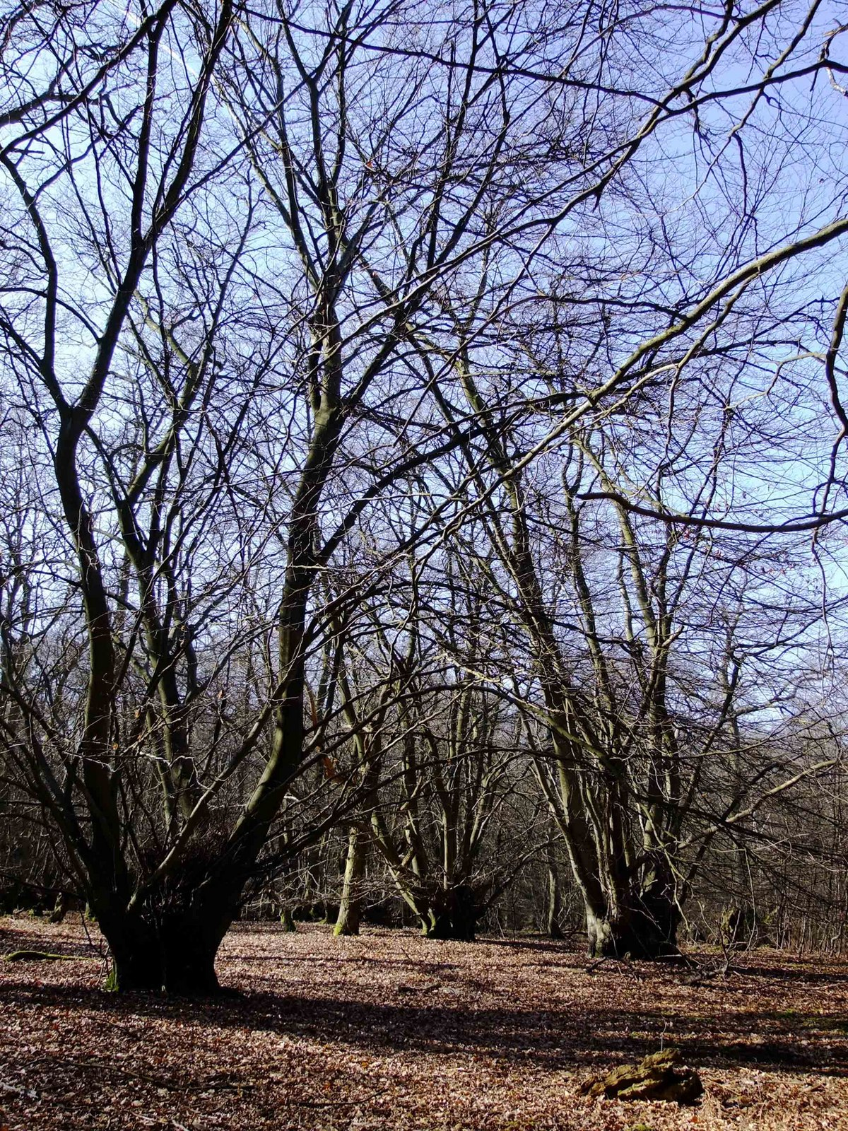 Coppiced beech trees, Hodgemoor Wood These are some of the best beech coppice in the Chilterns. The trees are part of a grove of over 100 coppiced beech in the western part of the woods. It is likely that they were still coppiced by the Polish war refugees during their stay in the wood.